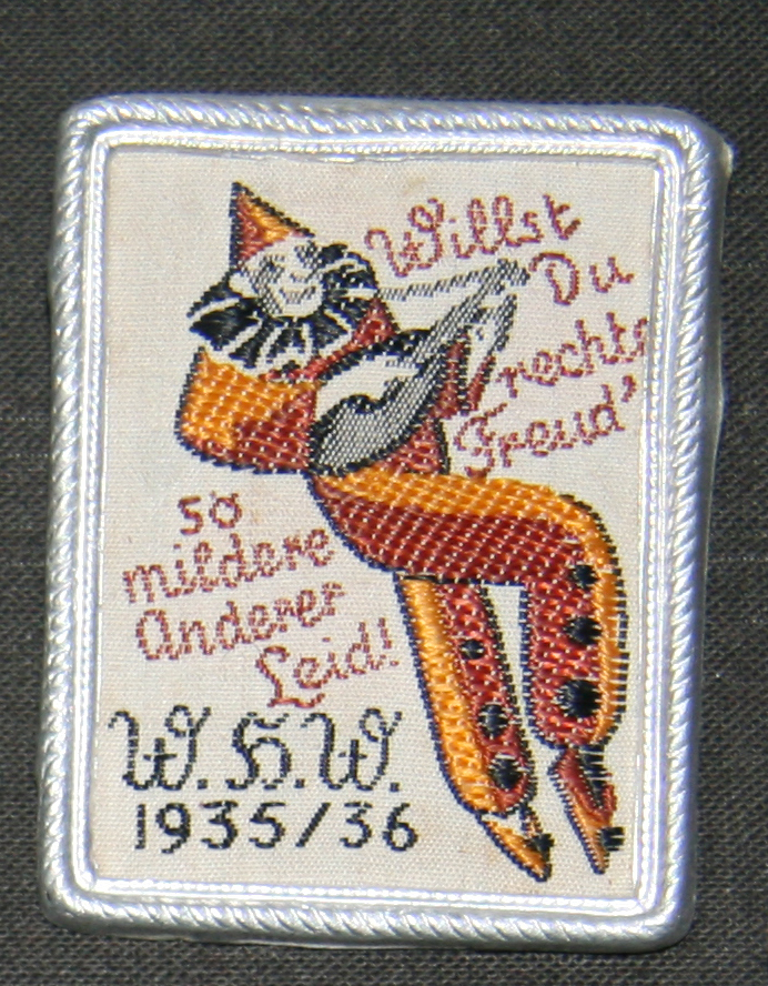 Fundraising badge, Winter Charity badge, 1935-36 (Willst du rechts Freud' 50 Mildere Andere Leid! WHW 1935-36) oblong form; legend on right and left of clown playing lute at centre; pin fastening